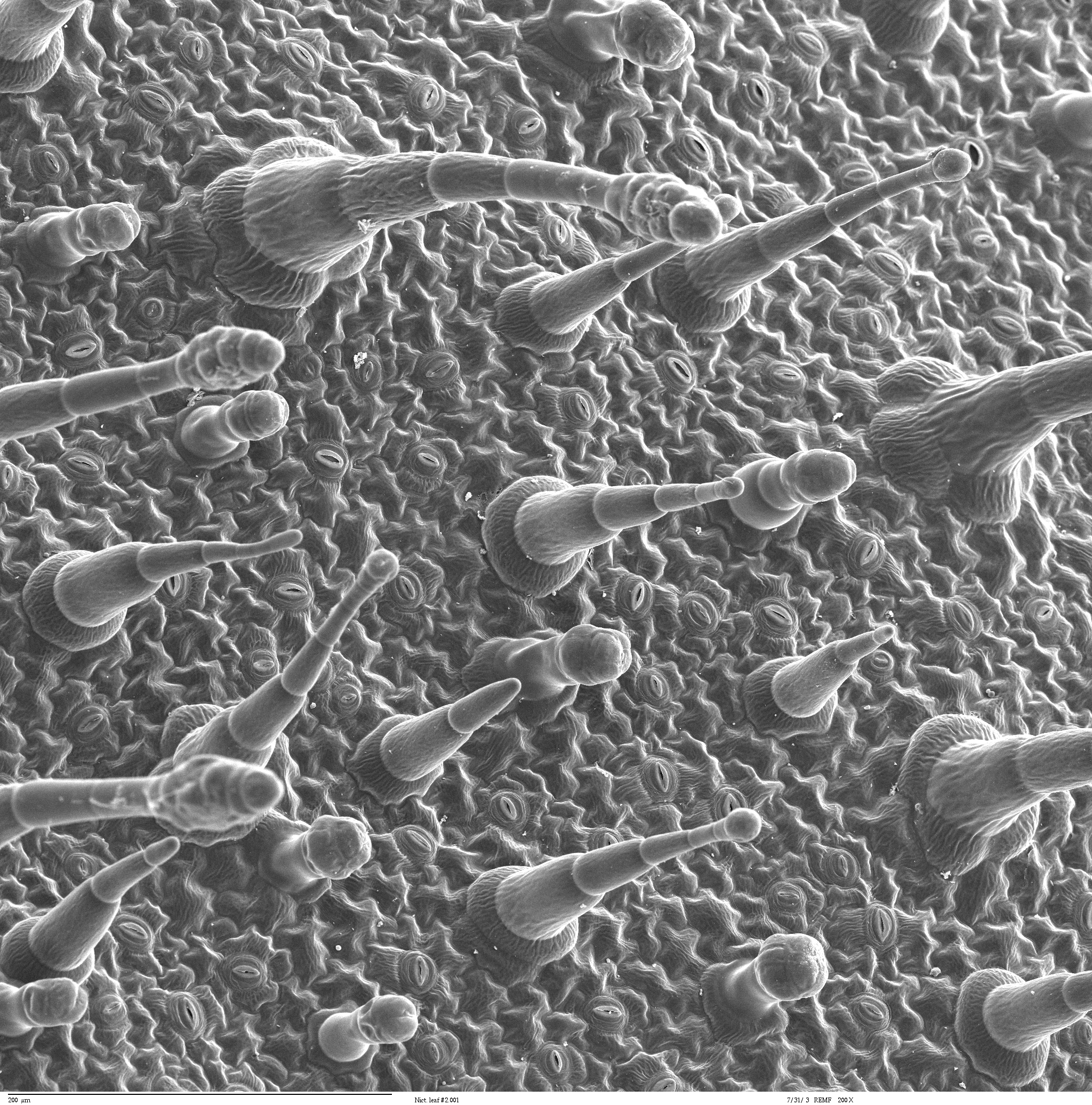 Scanning electron microscope image of Nicotiana alata upper leaf surface, showing tricomes and a few stomates. Instrument: ZEISS962 SEM.